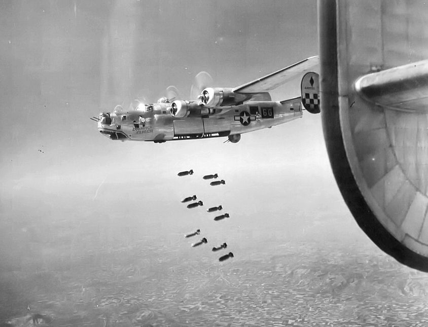 "Dogpatch Express" B-24L-10-FO Liberator s/n 44-49750 756th Bomb Squadron, 459th Bomb Group, 15th Air Force. Bombing near Padua,Italy. 4 May 1945